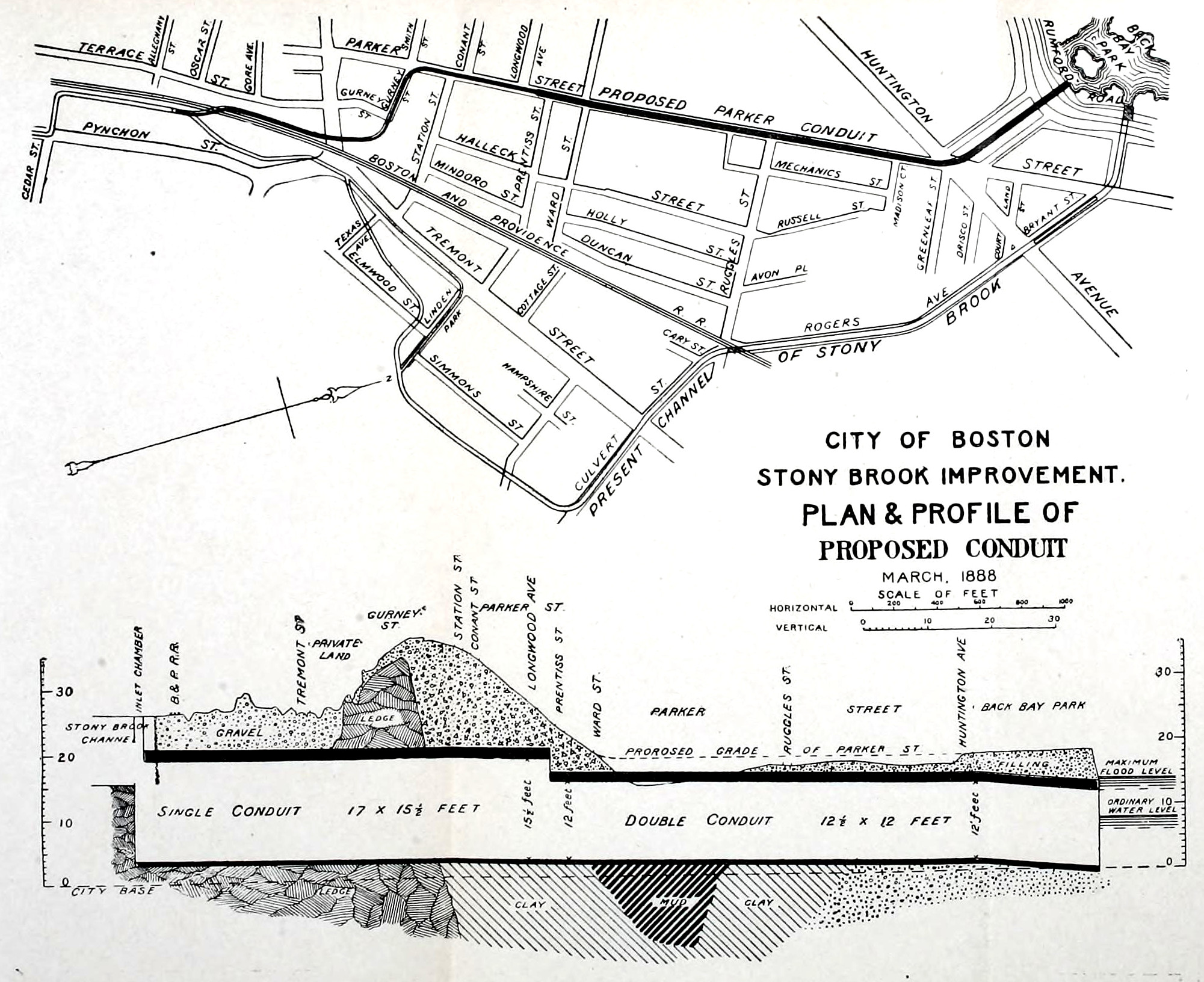 An 1888 map and profile showing the old and new conduits for the Stony Brook